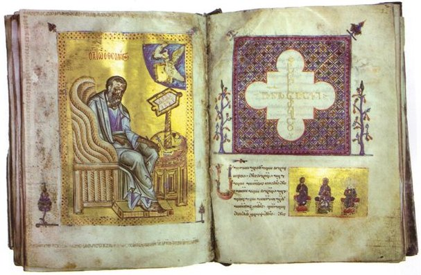 The Gelati Gospels, MSS Q 908. National Center of Manuscripts, Tbilisi. Georgia